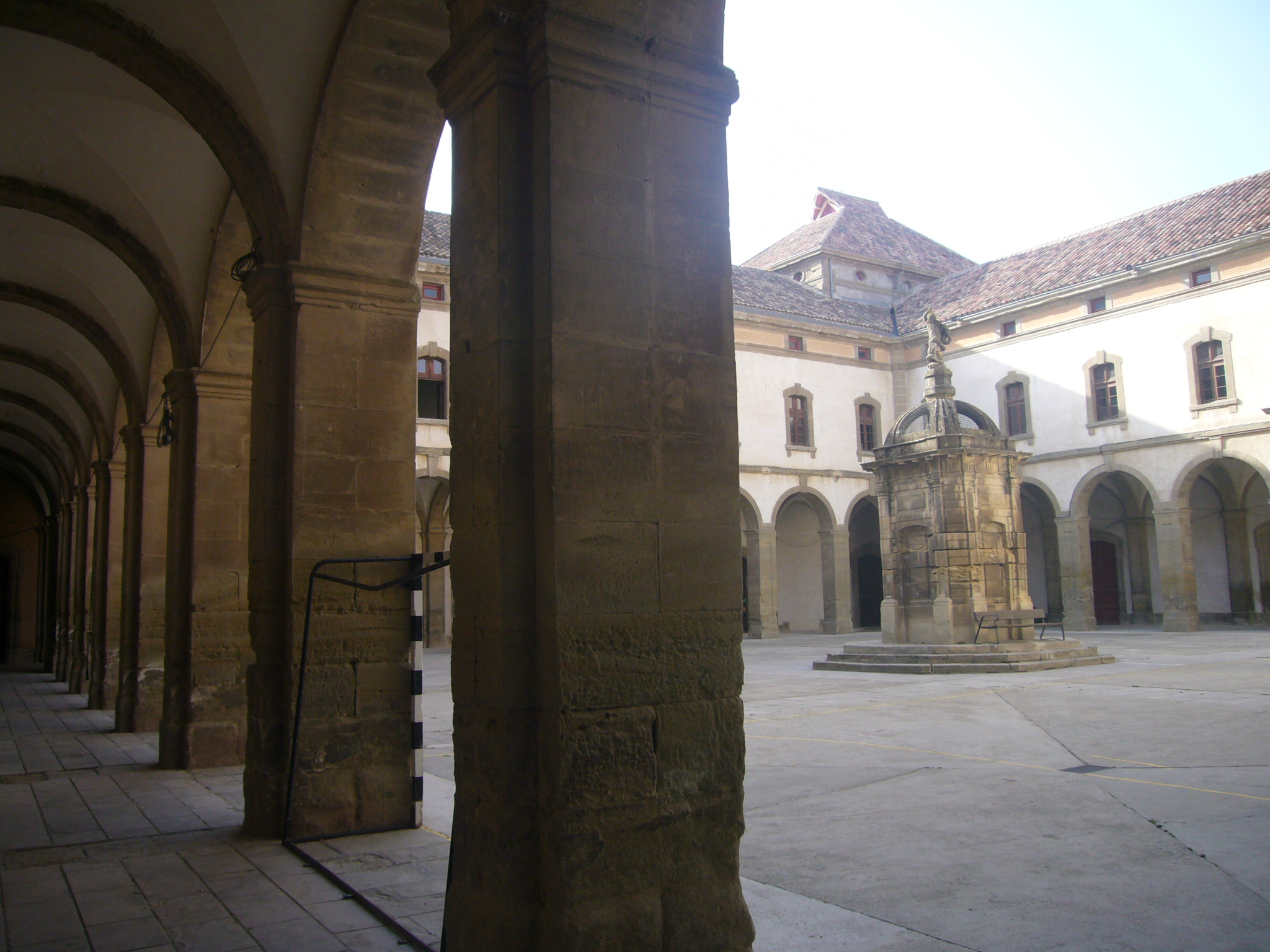 Universitat de Cervera